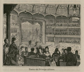 Teatro del Príncipe Alfonso, Madrid.